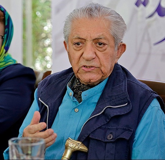 Ezatollah Entezami, Iranian film actor